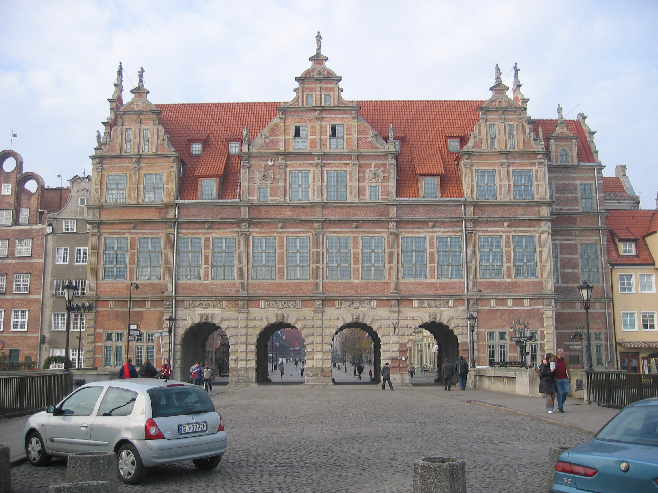 Green Gate in the Main Town of Gdańsk, view from the Green Bridge, 4 November 2005.